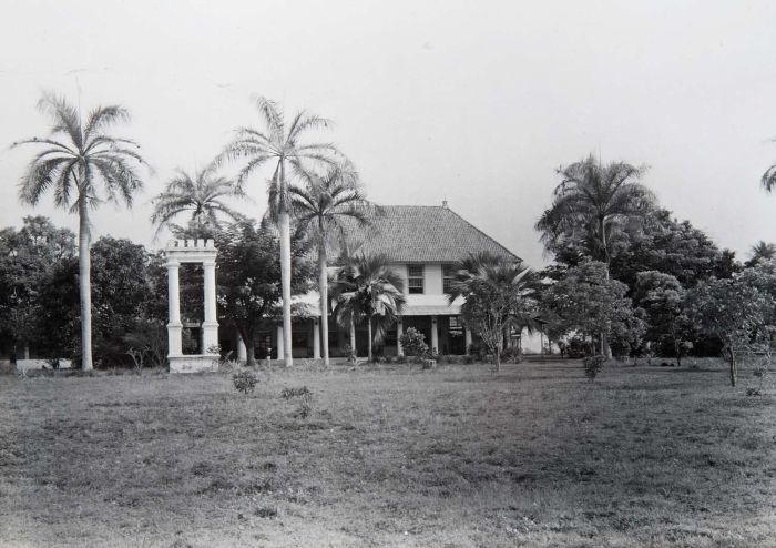 Villa Tjenkarang, built in 1760 by Michiel Romp